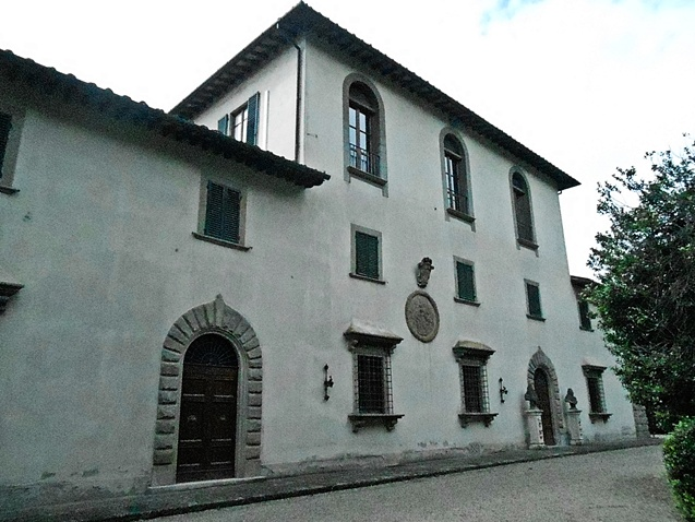 facade of the villa